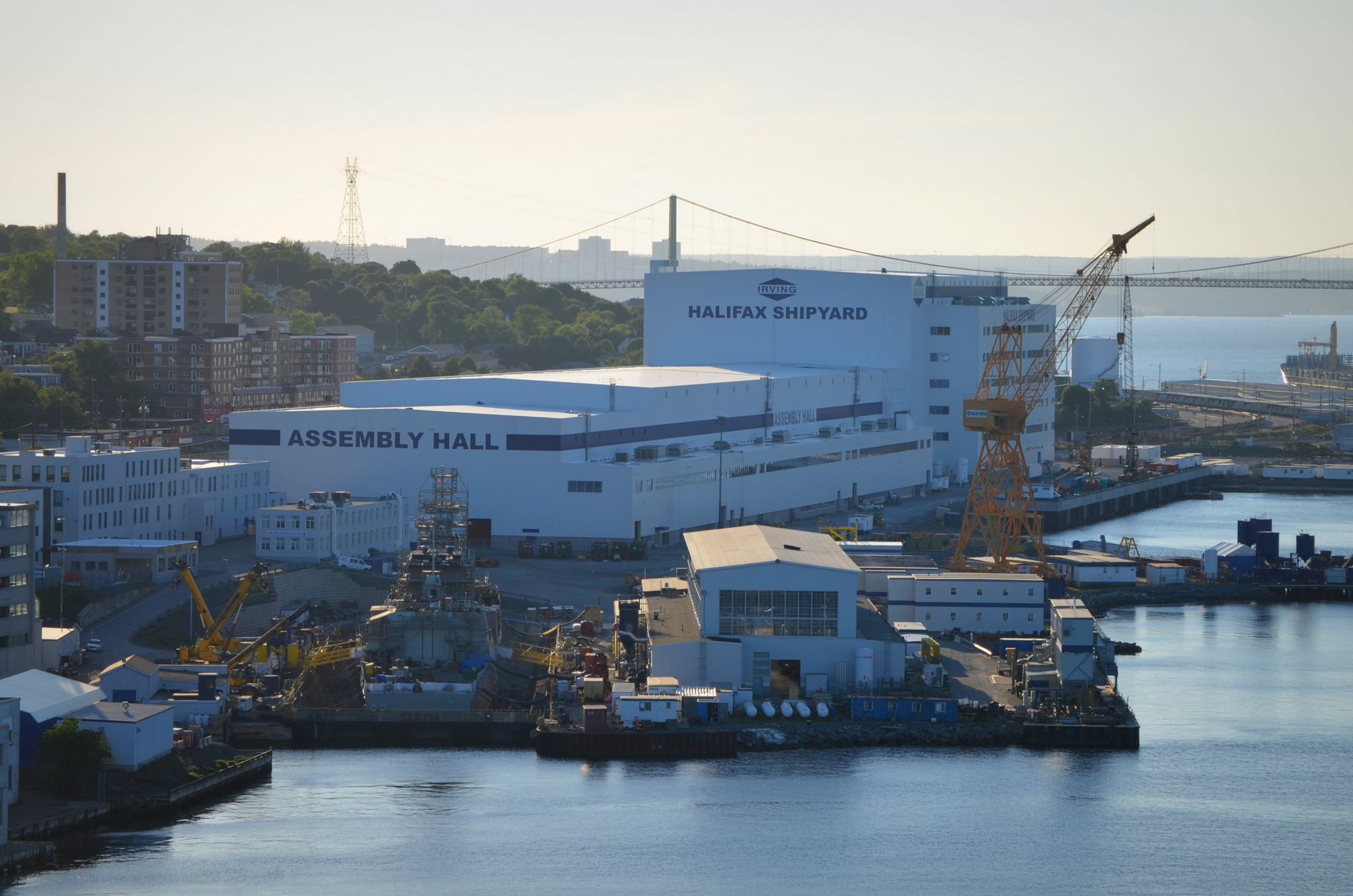 The Halifax Shipyard viewed from the Macdonald Bridge cycle lane.